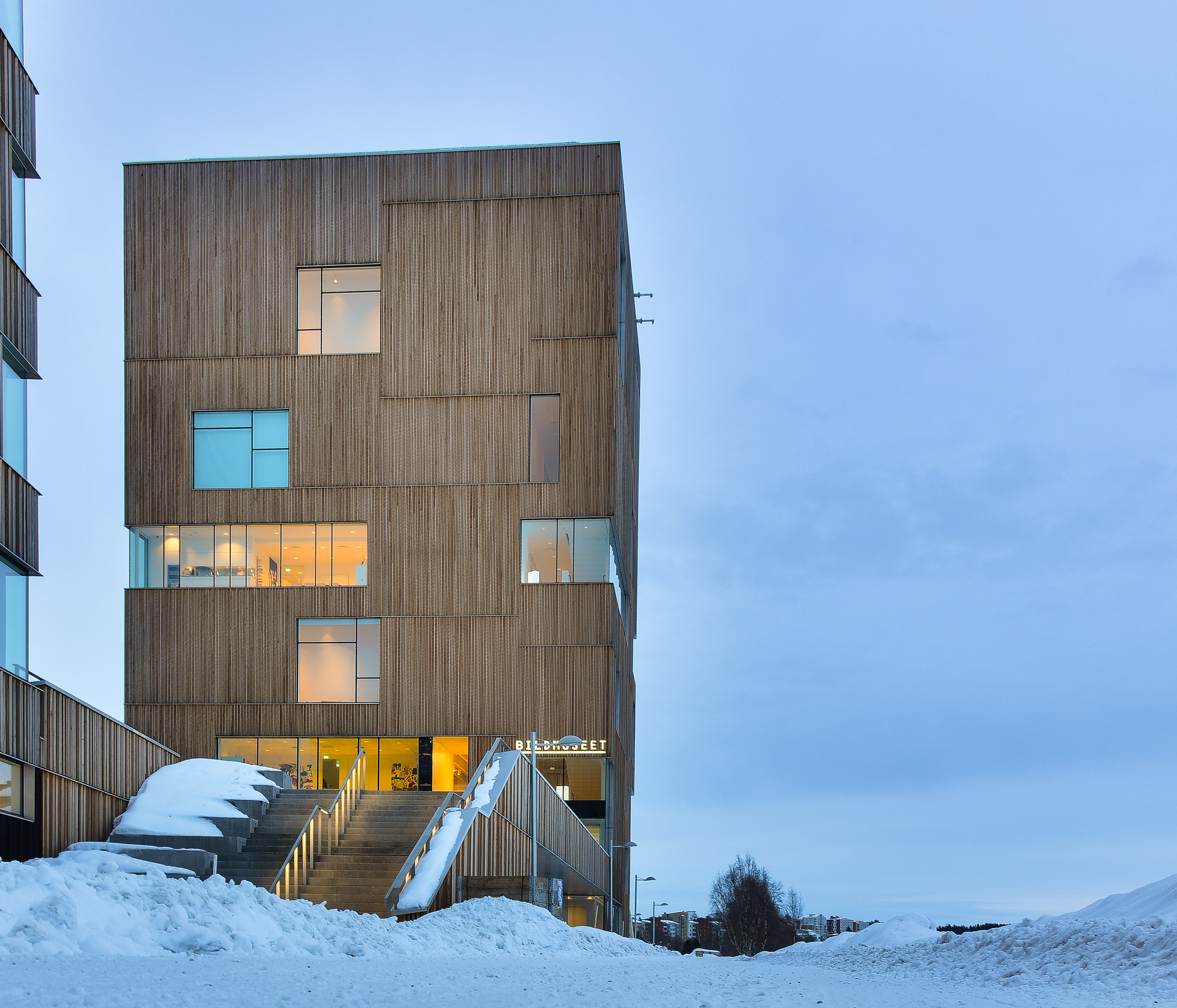 Bildmuseet is a public institution for contemporary art and visual culture in Umeå, Västerbotten, Sverige. The building was designed by Henning Larsen Architects and its part of the new Arts Campus in Umeå.